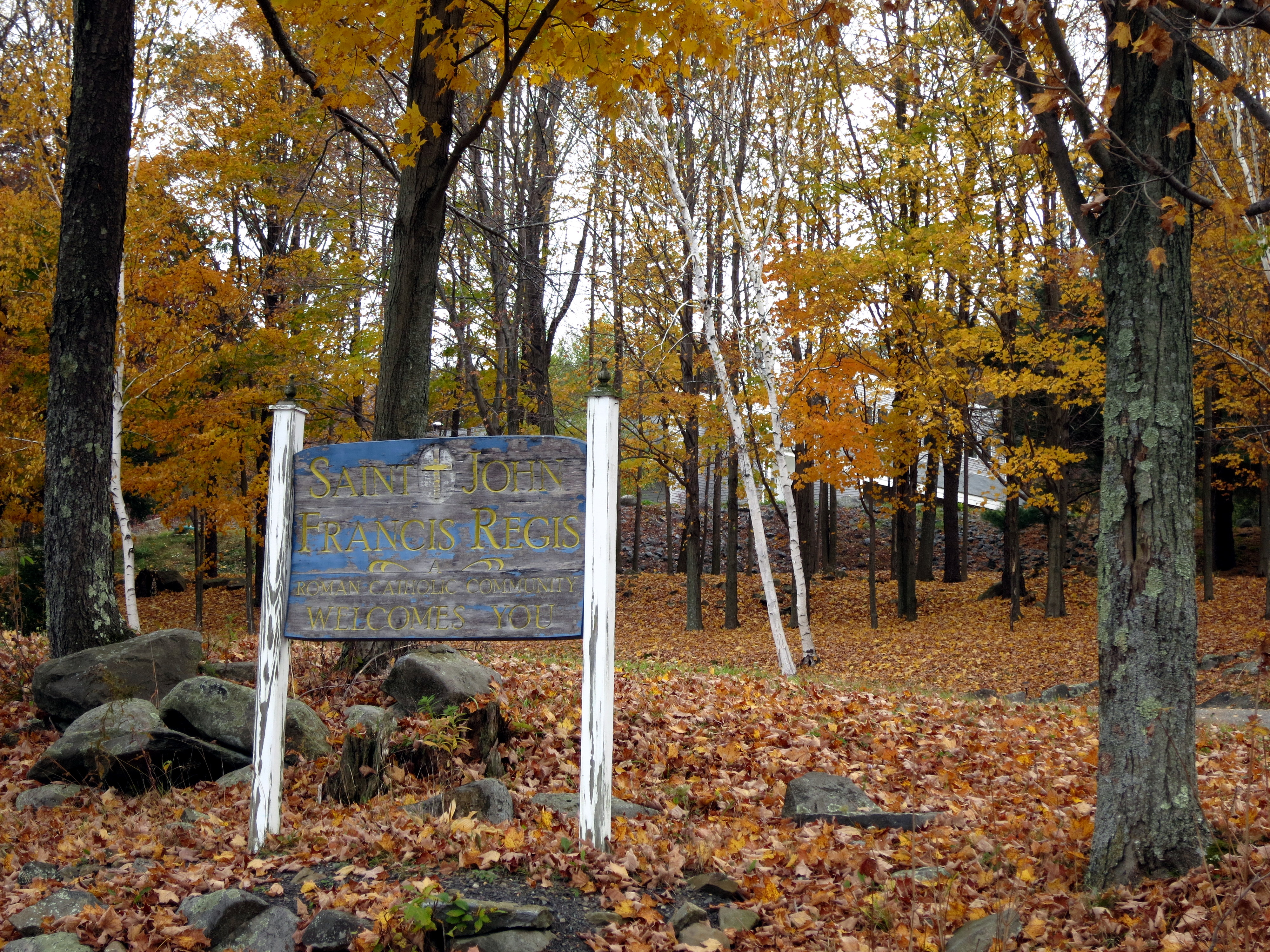 Saint John Francis Regis Catholic Church (Grafton, New York) - sign